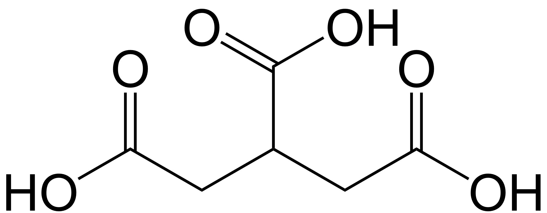 Propane-1,2,3-tricarboxylic acid 2D molecular structure